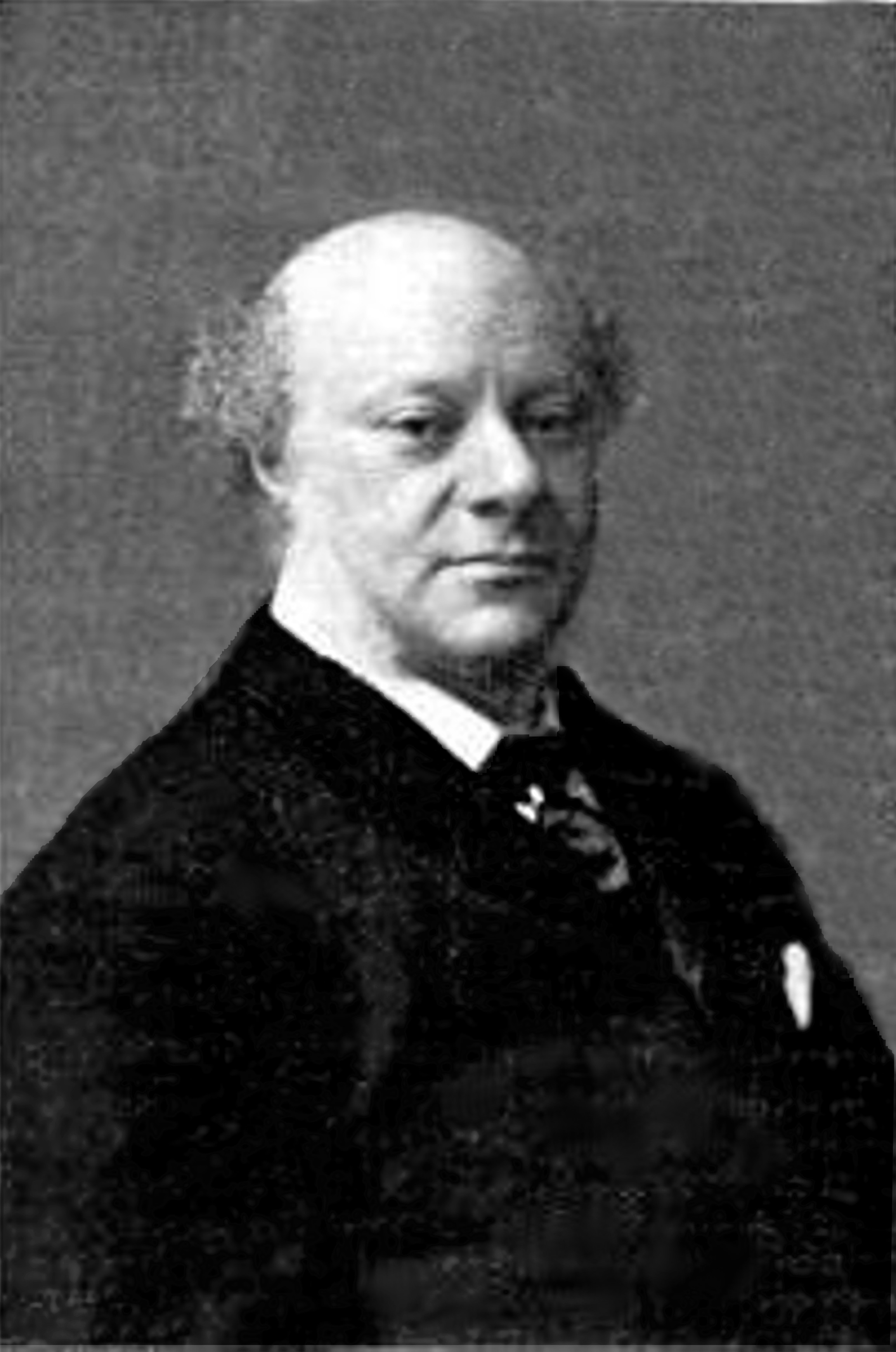 Alberto Randegger (13 April 1832 – 18 December 1911) was an Italian-born composer, conductor and singing teacher